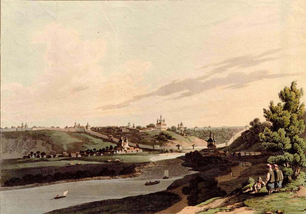 Russian town Smolensk in 1814 by unknown artist of XIX c.